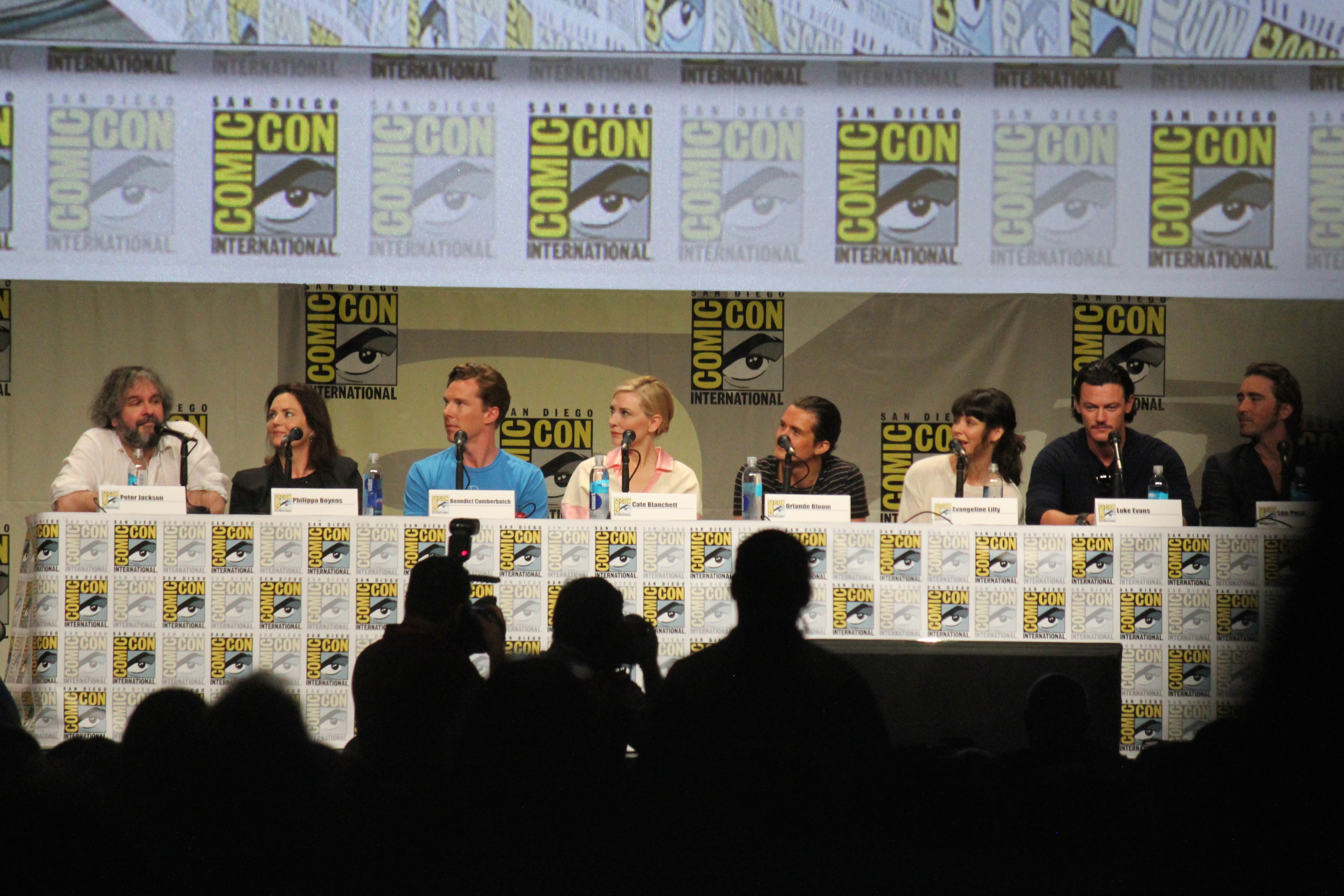 The Hobbit 2 Panel